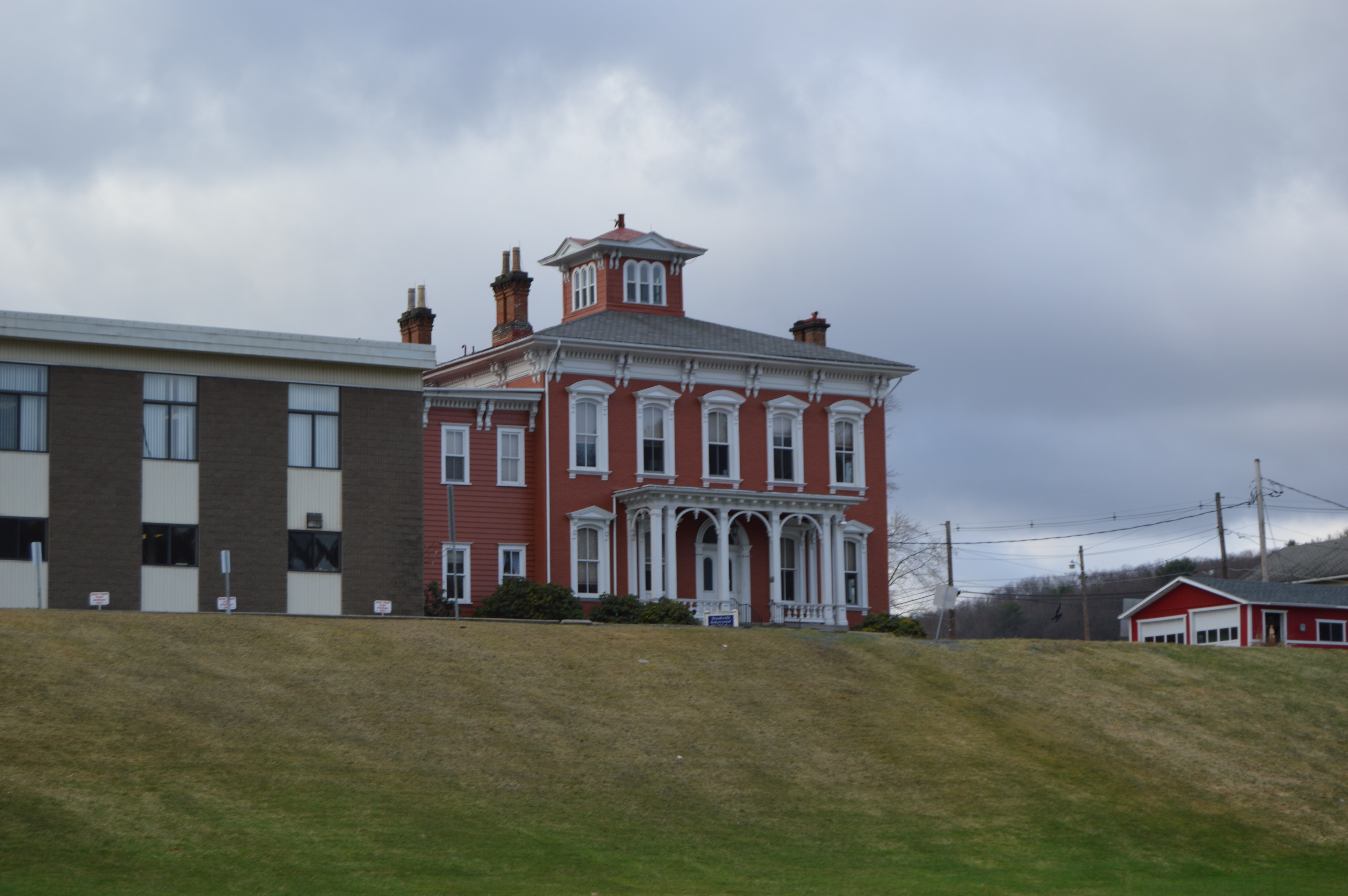 Distant view from the north of the Phillip Taylor House, located on Euclid Avenue in Brookville, Pennsylvania, United States. Built in 1841, it is listed on the National Register of Historic Places.